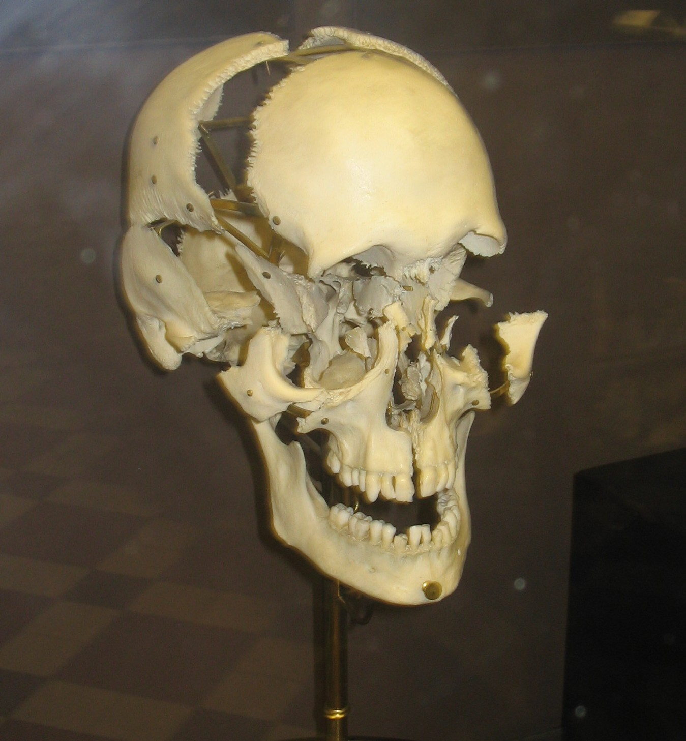 Exploded Human skull from the Zoological Museum, Bolshaya Nikitskaya Street, Moscow